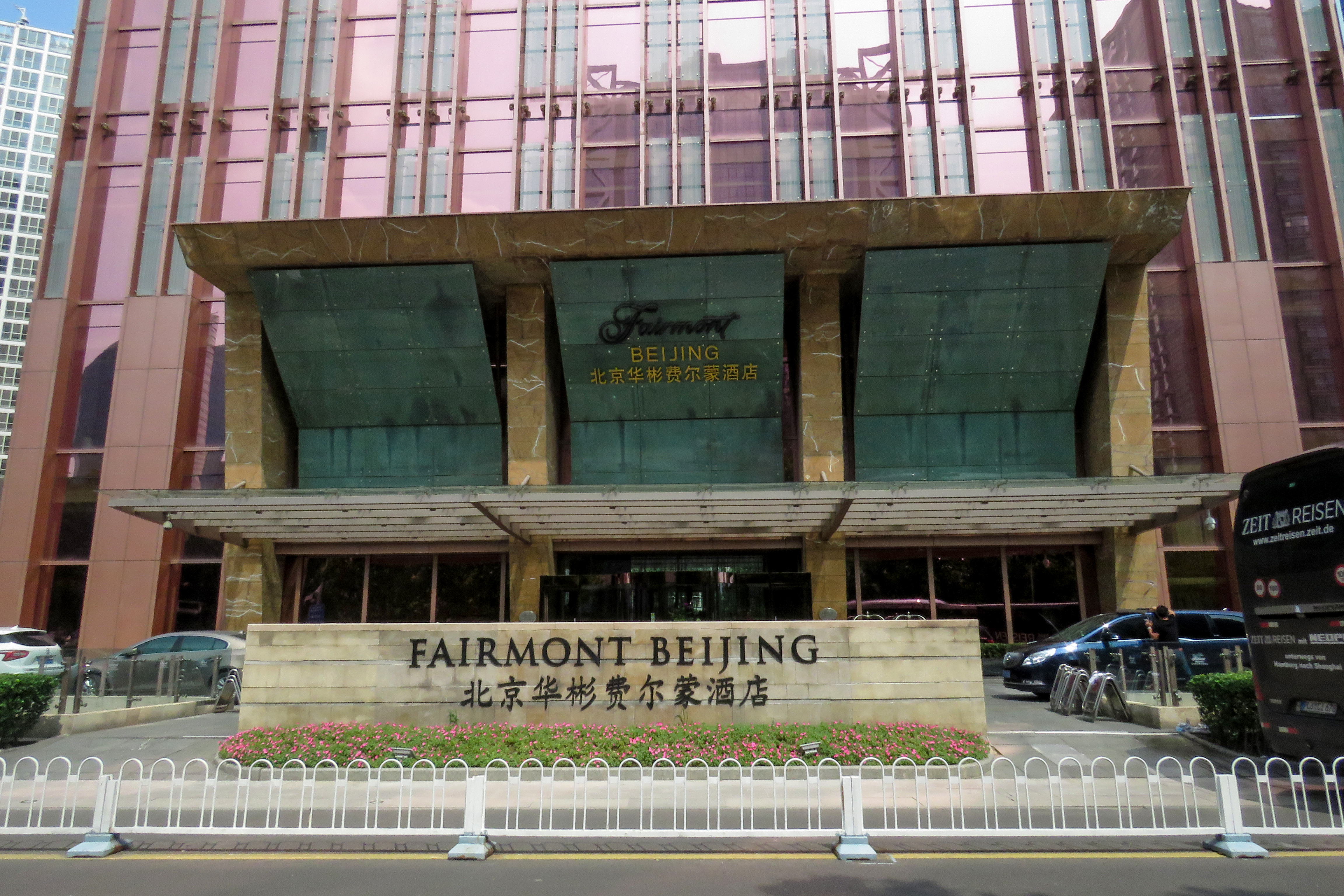 At Yonganli, near Reignwood Group. But the highlight is Neoplan today.